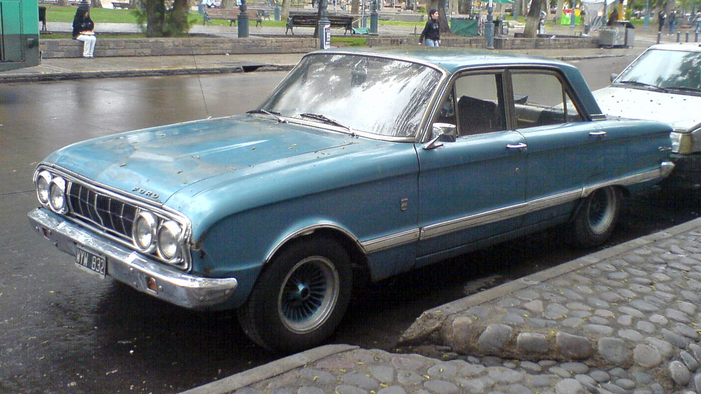 1970-1973 Ford Falcon in Argentina